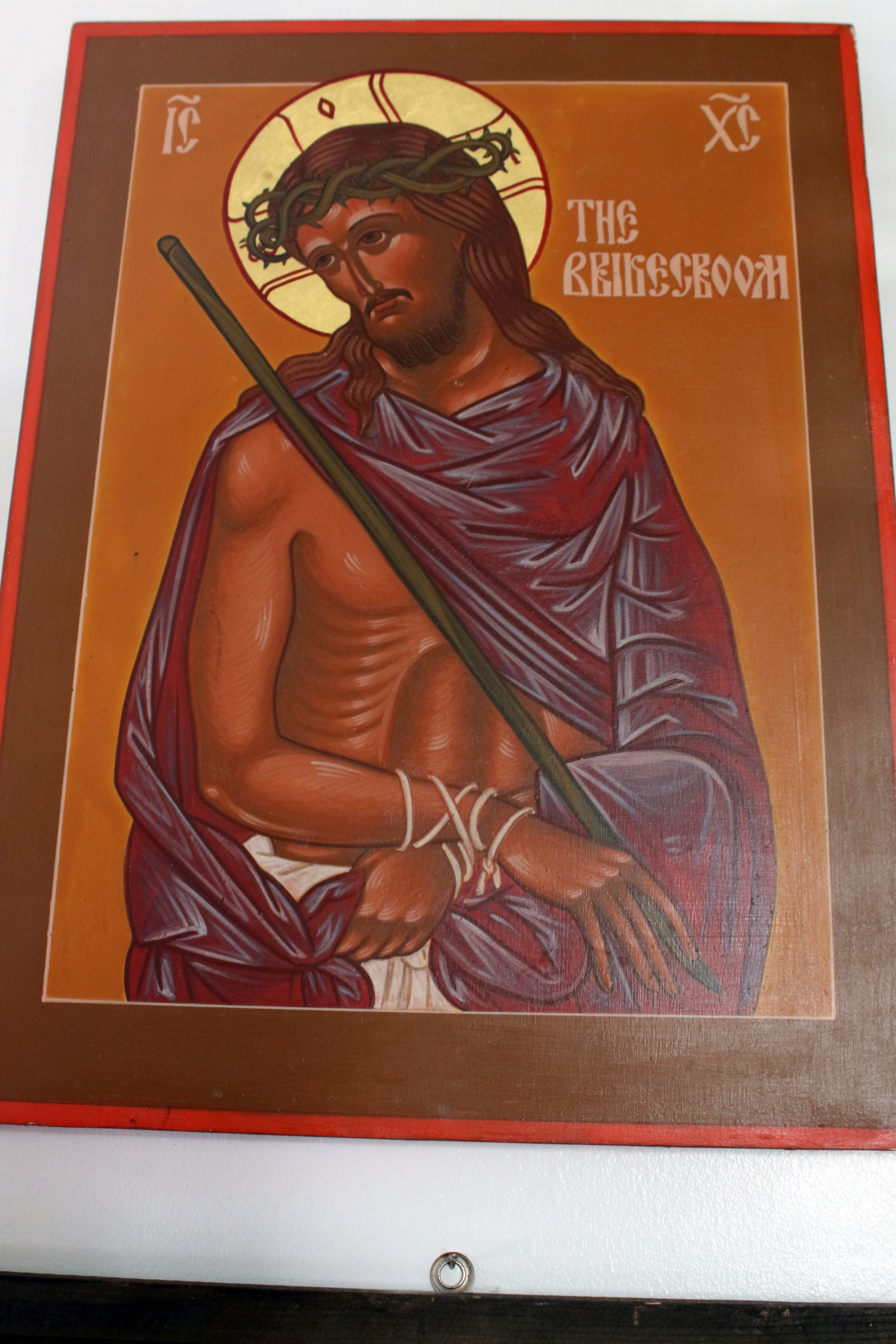 Ecce Homo icon in Saint Nicholas Russian Orthodox Church, Juneau, Alaska.